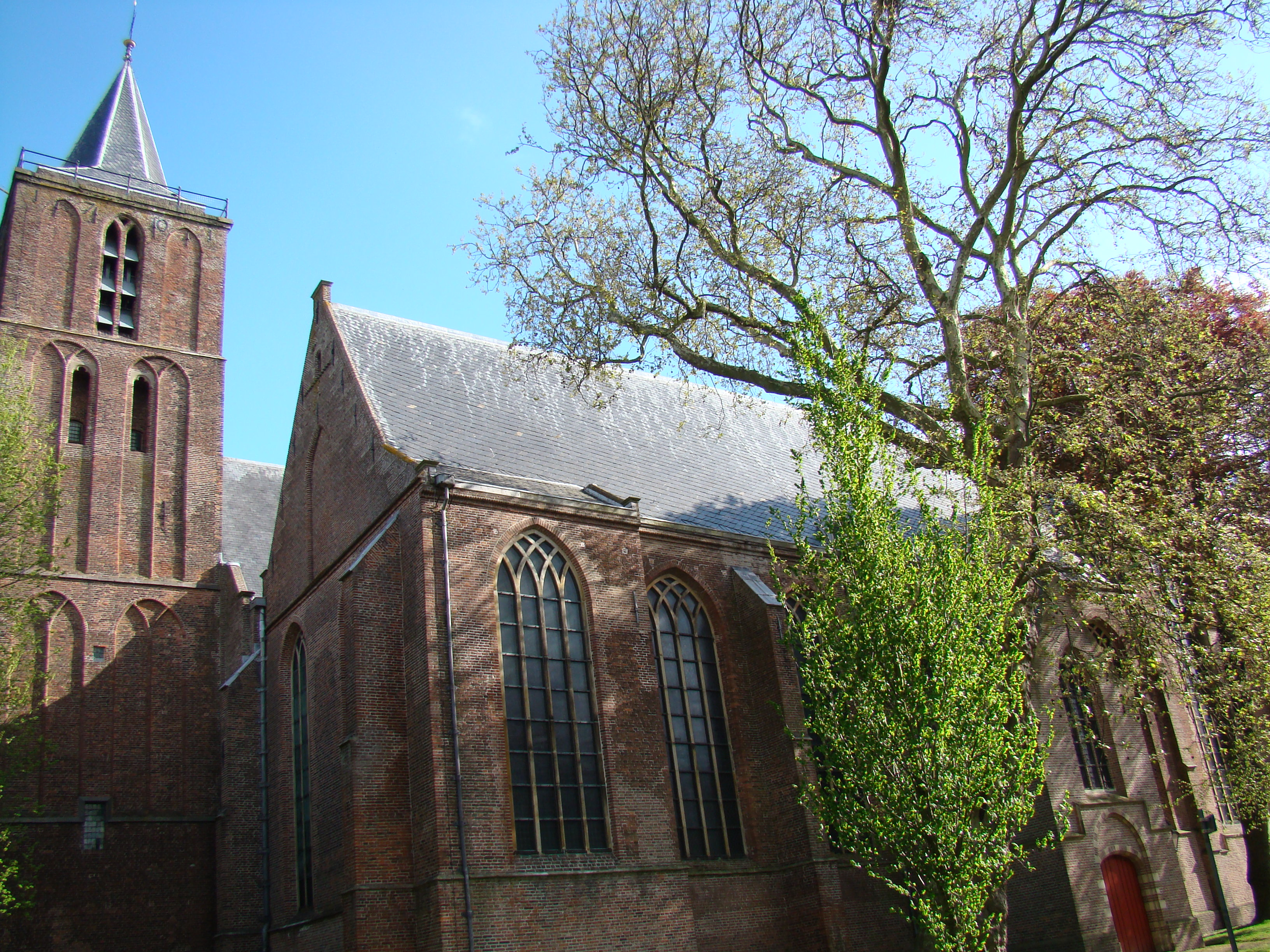 Monumental buildings in Edam (Netherlands)